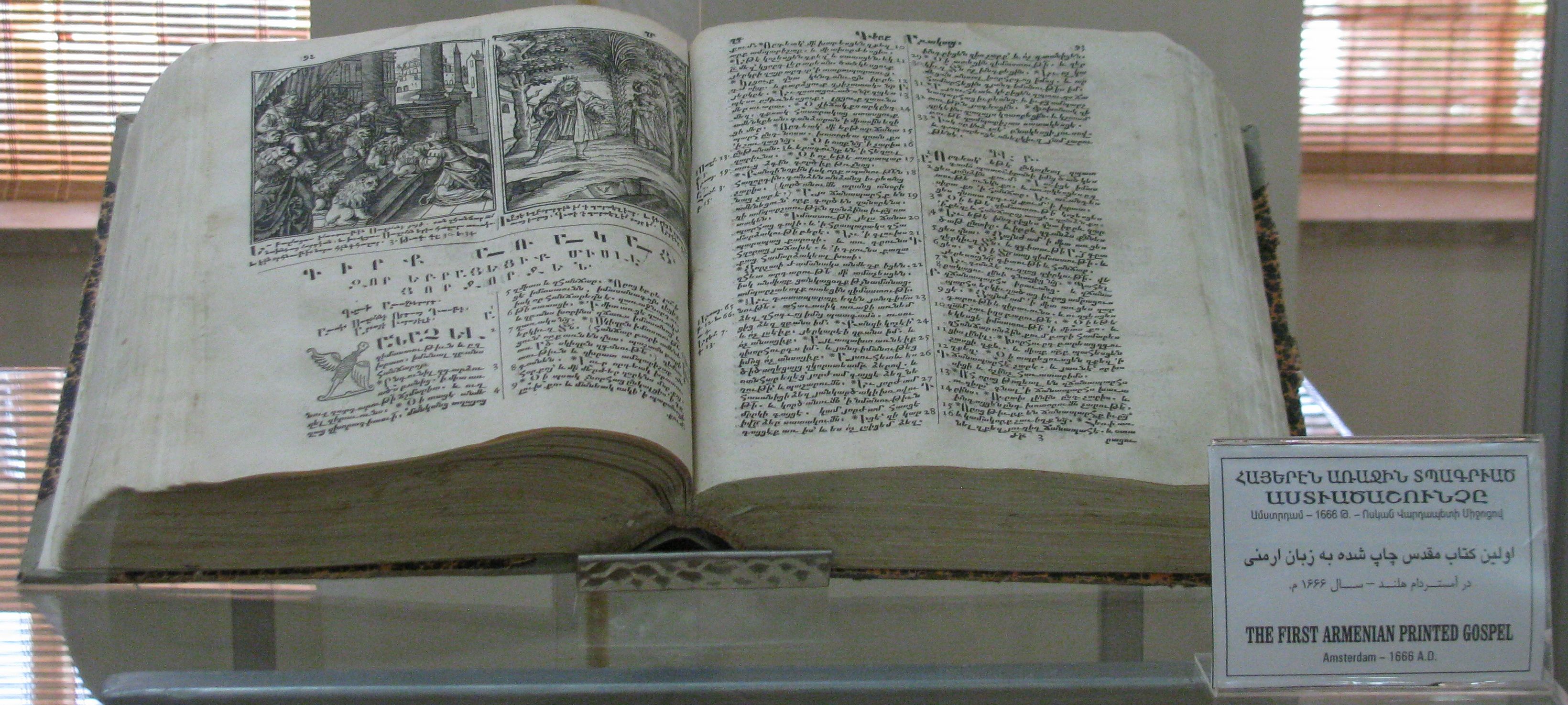 The first Armenian printed gospel. 1666 A.D.